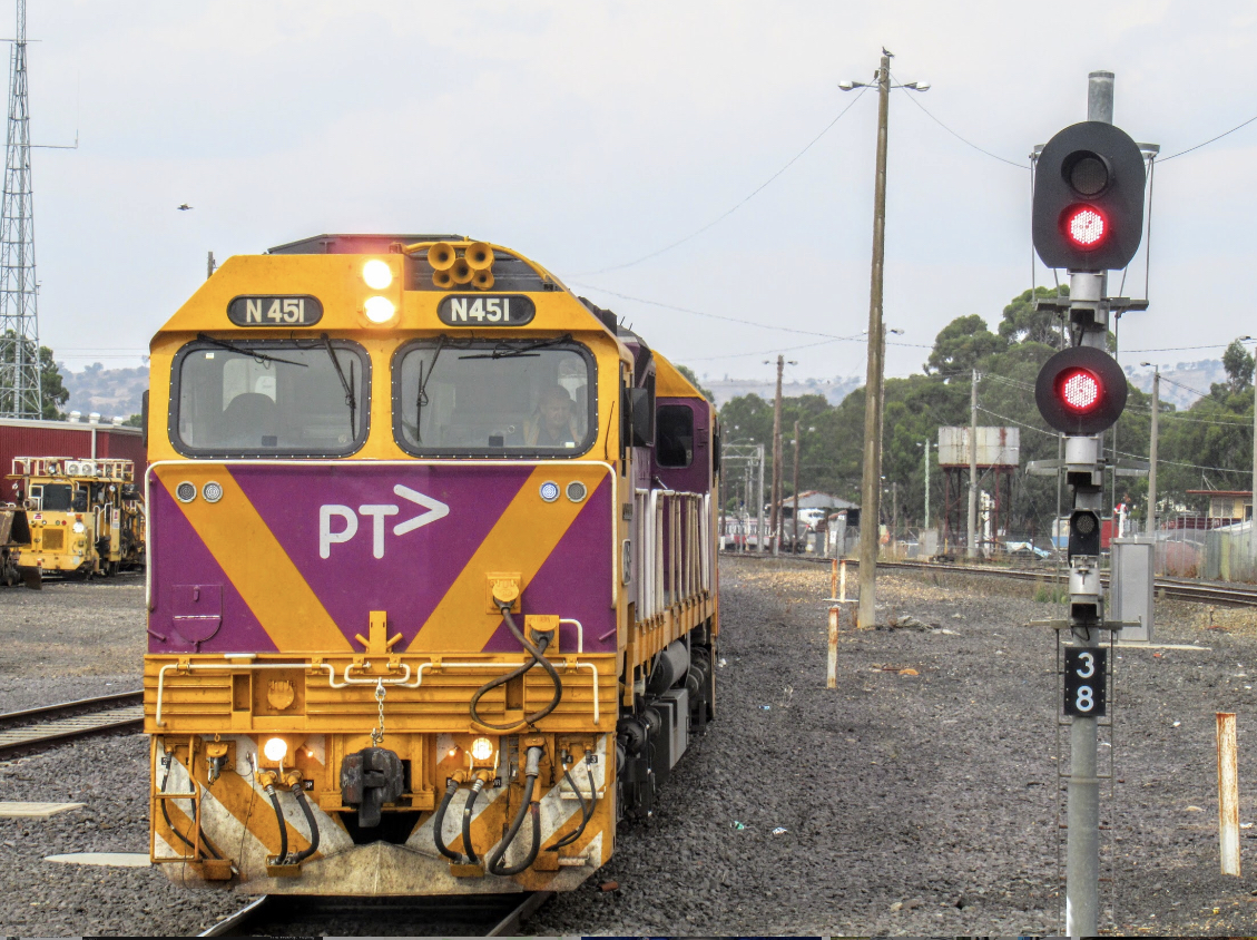 Vline passenger train arriving at Seymour railway station.